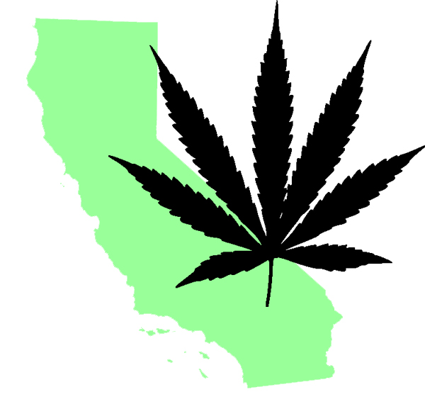 Map outline of California with a marijuana leaf.